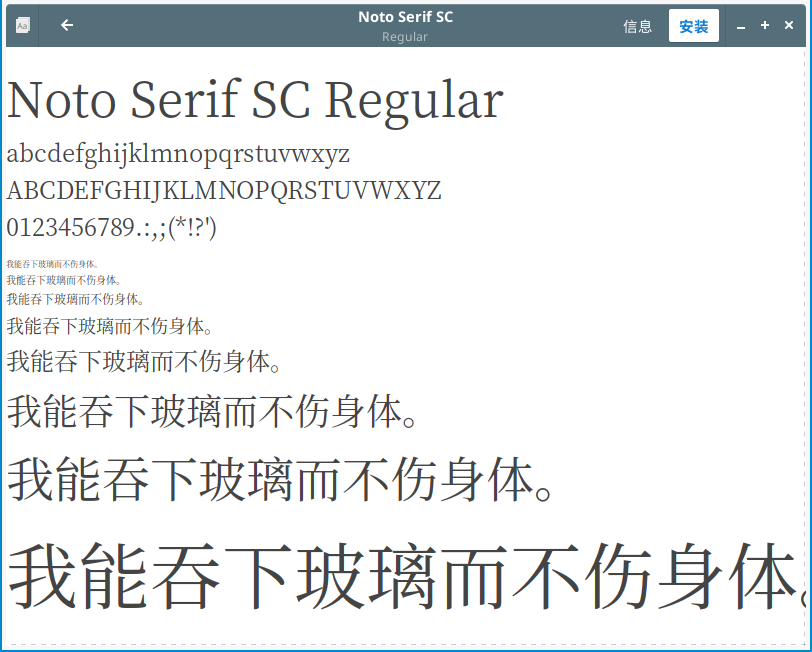 A screenshot of GNOME font viewer, showing font samples of "Noto Serif SC Regular". The sample text in use is "我能吞下玻璃而不伤身体".